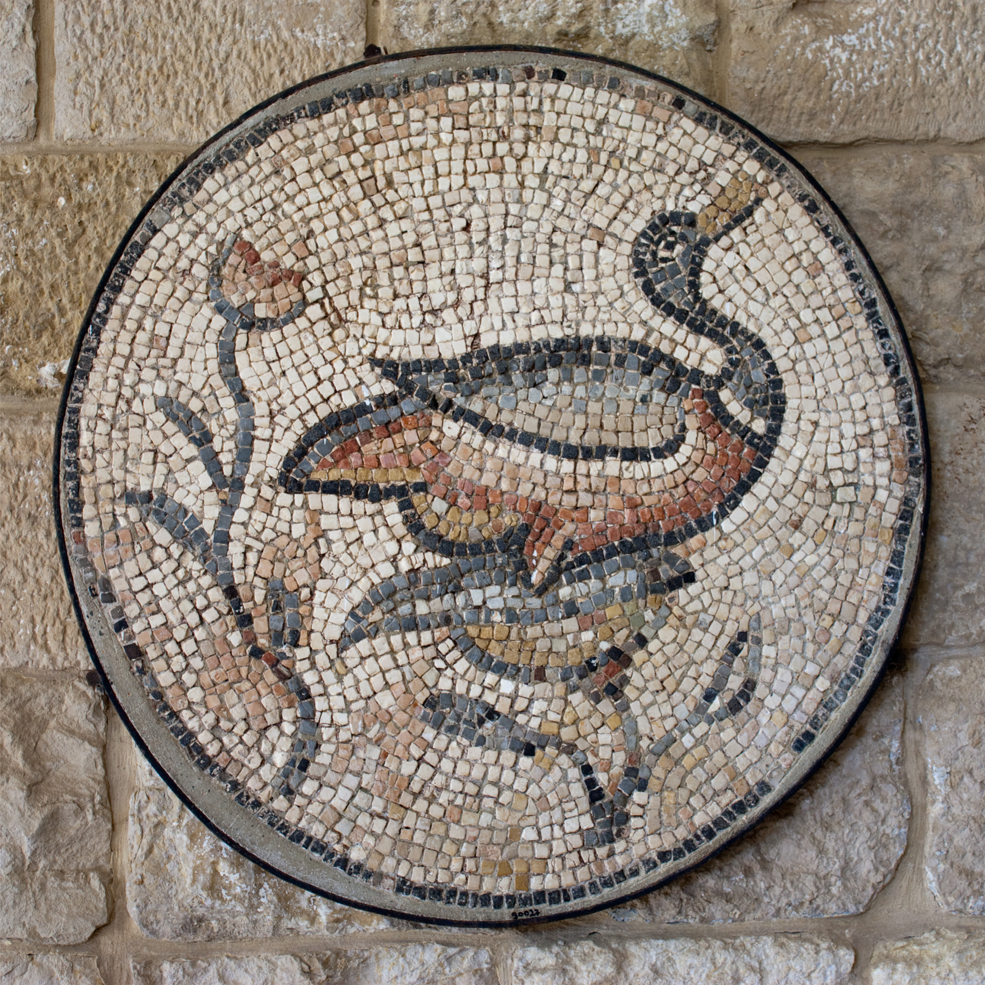 Roman mosaic of a mallard in the palace of Beit ed-Dine.